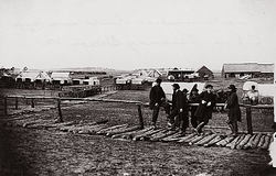 Photograph of Civil War Camp at Fort Ellsworth, virginia.